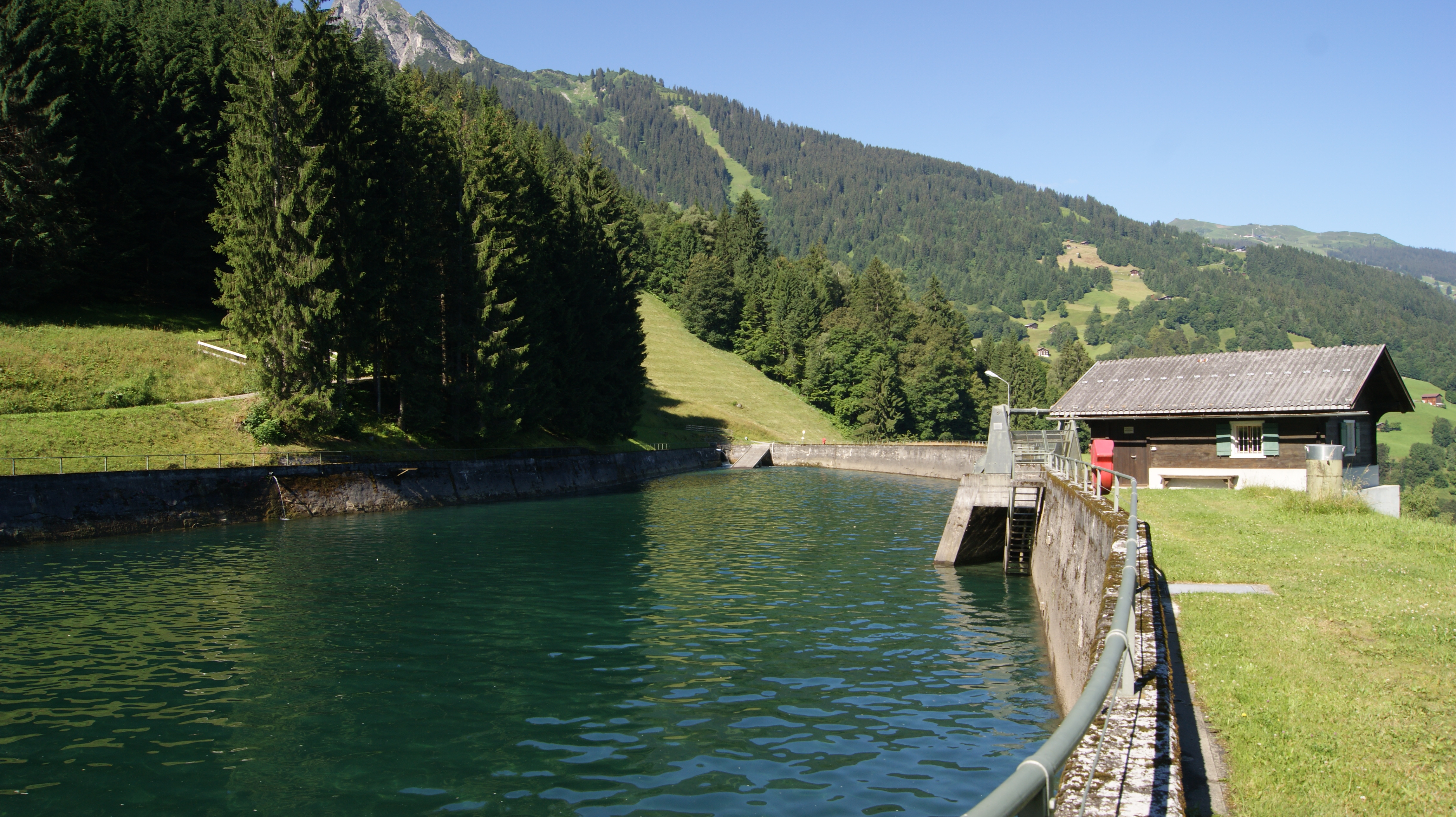 Reservoir Bitschweil of the Vorarlberger Kraftwerke AG in 1076.5 masl. The reservoir Bitschweil (also Reservoir Gampadels) is about 170 m long and at its widest point about 45 m. It holds now approximately 32,000 m3.